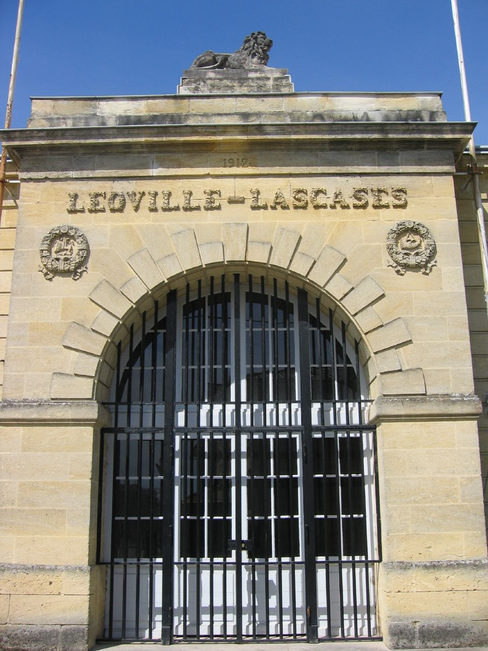 Entrance to the French Bordeaux wine producer